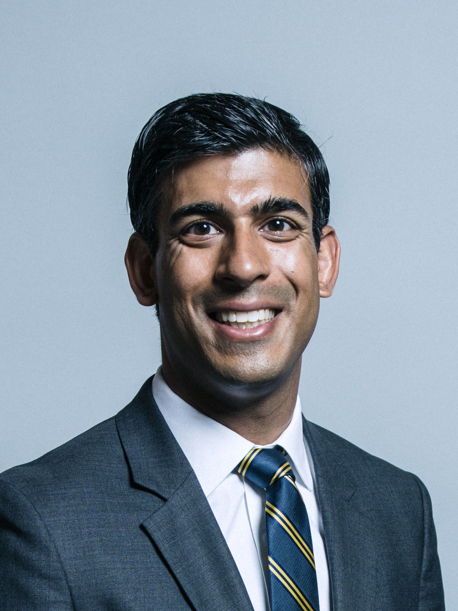 Official portrait of Rishi Sunak